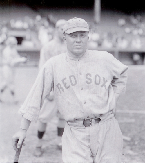 Portrait of Boston Red Sox outfielder Olaf Henriksen, the only Danish-born baseball player in Major League Baseball history. The image was scanned by myself and slightly retouched and cropped with the GIMP.